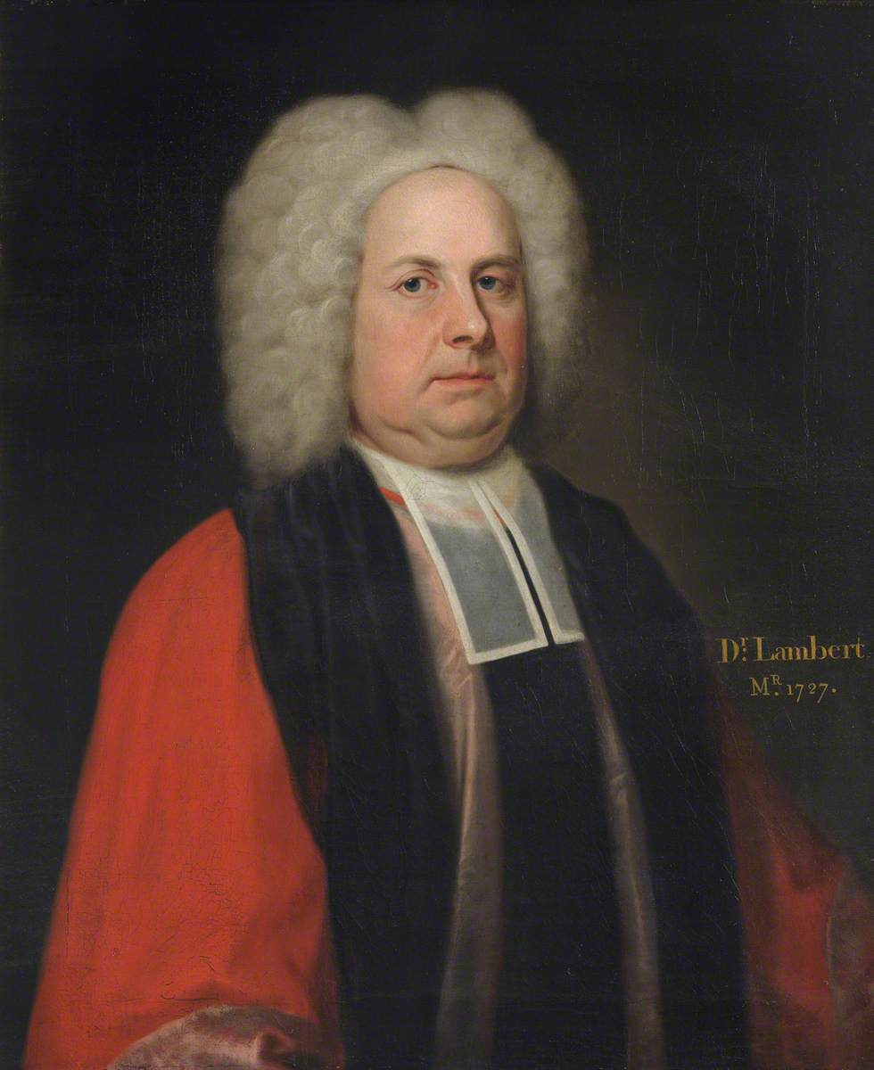 Dr Robert Lambert (d.1734), Master of St John's College, Cambridge